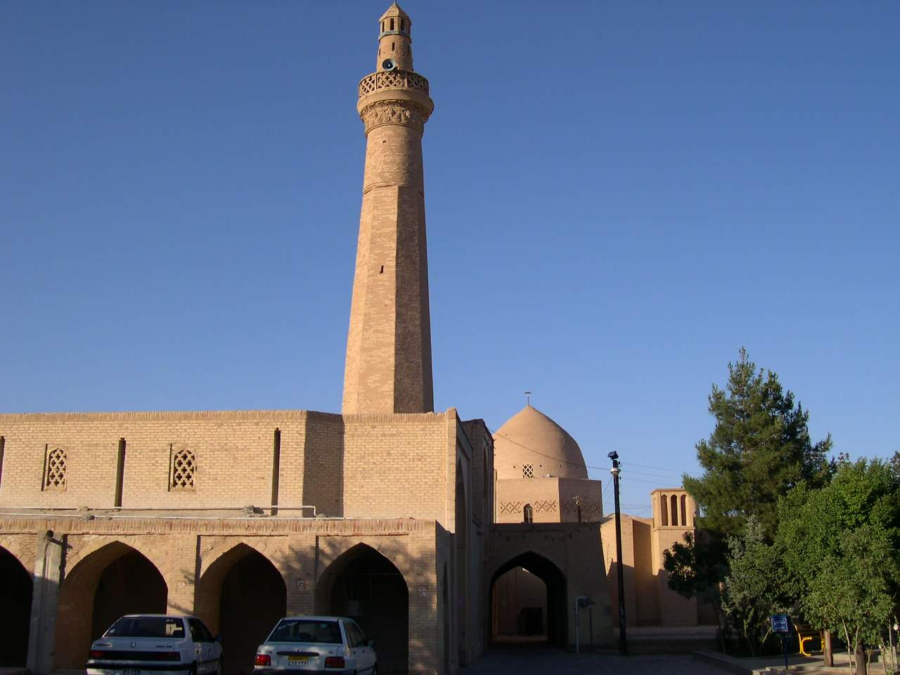 Na'in Masjid Jame'